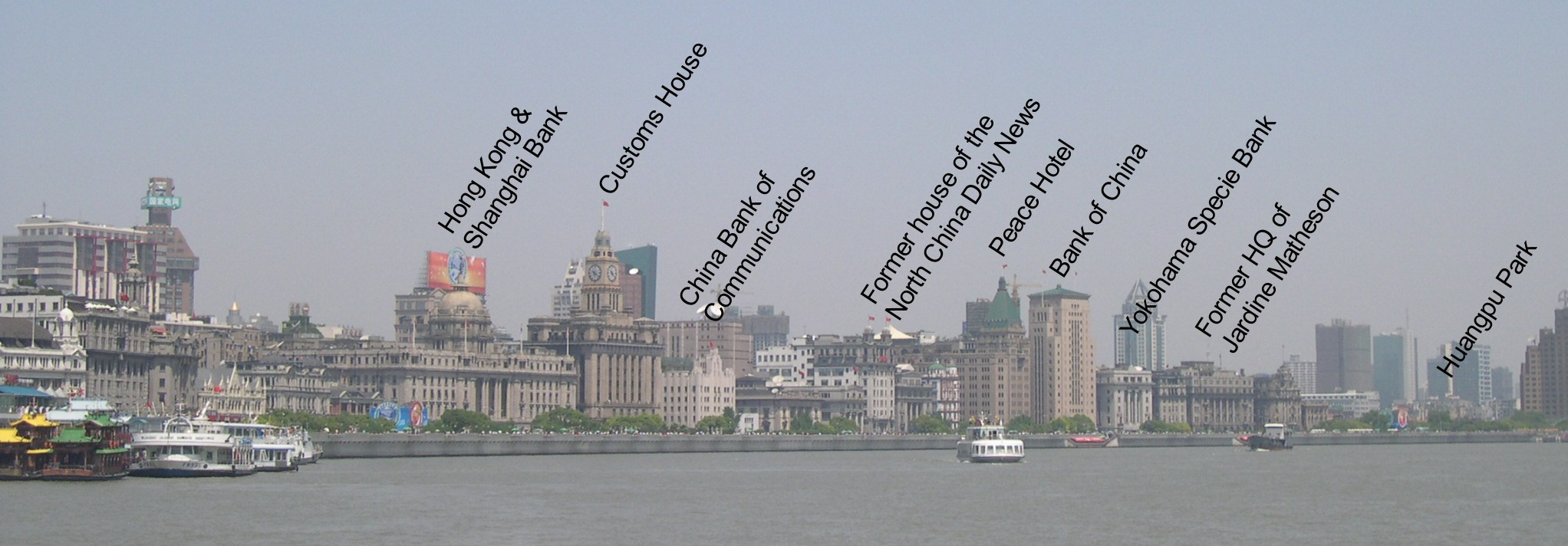 An overview of the Bund in Shanghai with the main buildings marked on the picture